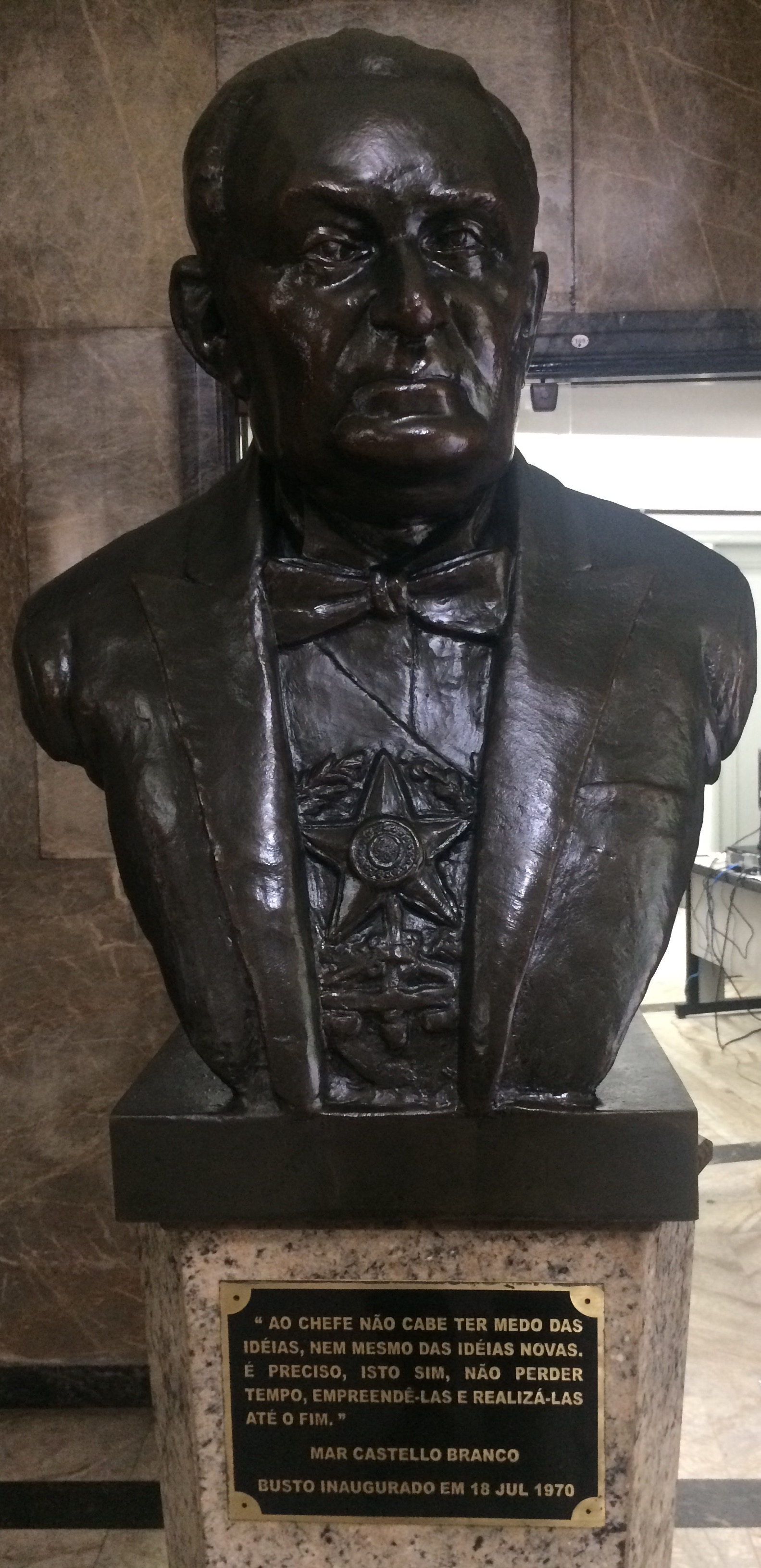 Marshal Castello Branco, former brazilian president.